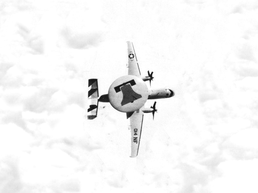 A U.S. Navy Grumman E-2B Hawkeye from Carrier Airborne Early Warning Squadron 115 "Liberty Bells" in flight. VAW-115 was assigned to Attack Carrier Air Wing 5 (CVW-5) aboard the aircraft carrier USS Midway (CVA-41) in 1974.